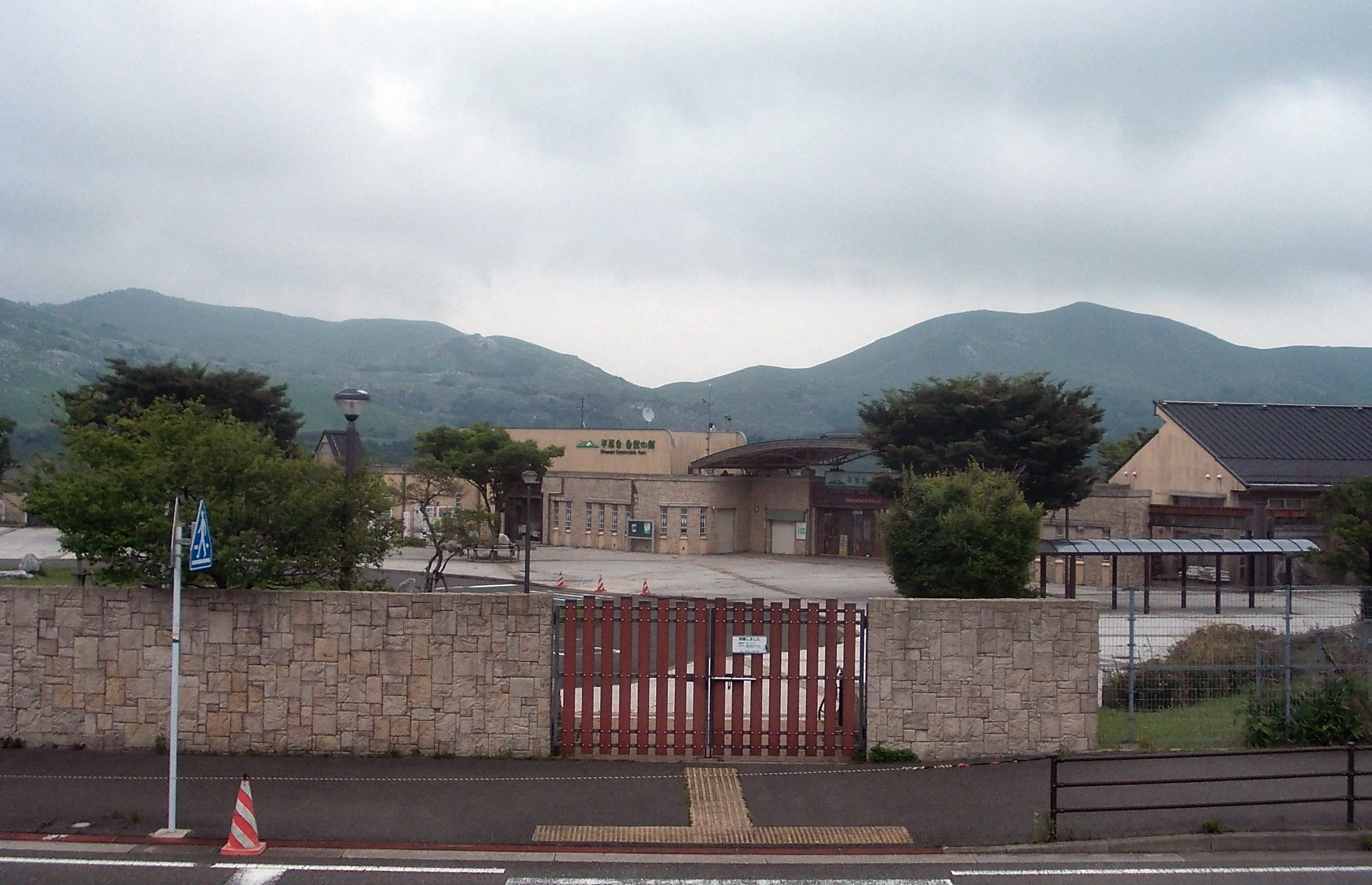 Hiraodai Countryside Park Village Zone entrance, Kokuraminami-ku, Kitakyushu, Fukuoka, Japan